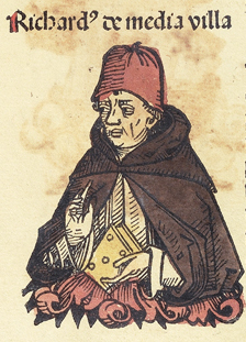 Woodcut from the Nuremberg Chronicle (Latin edition in Sao Paulo)